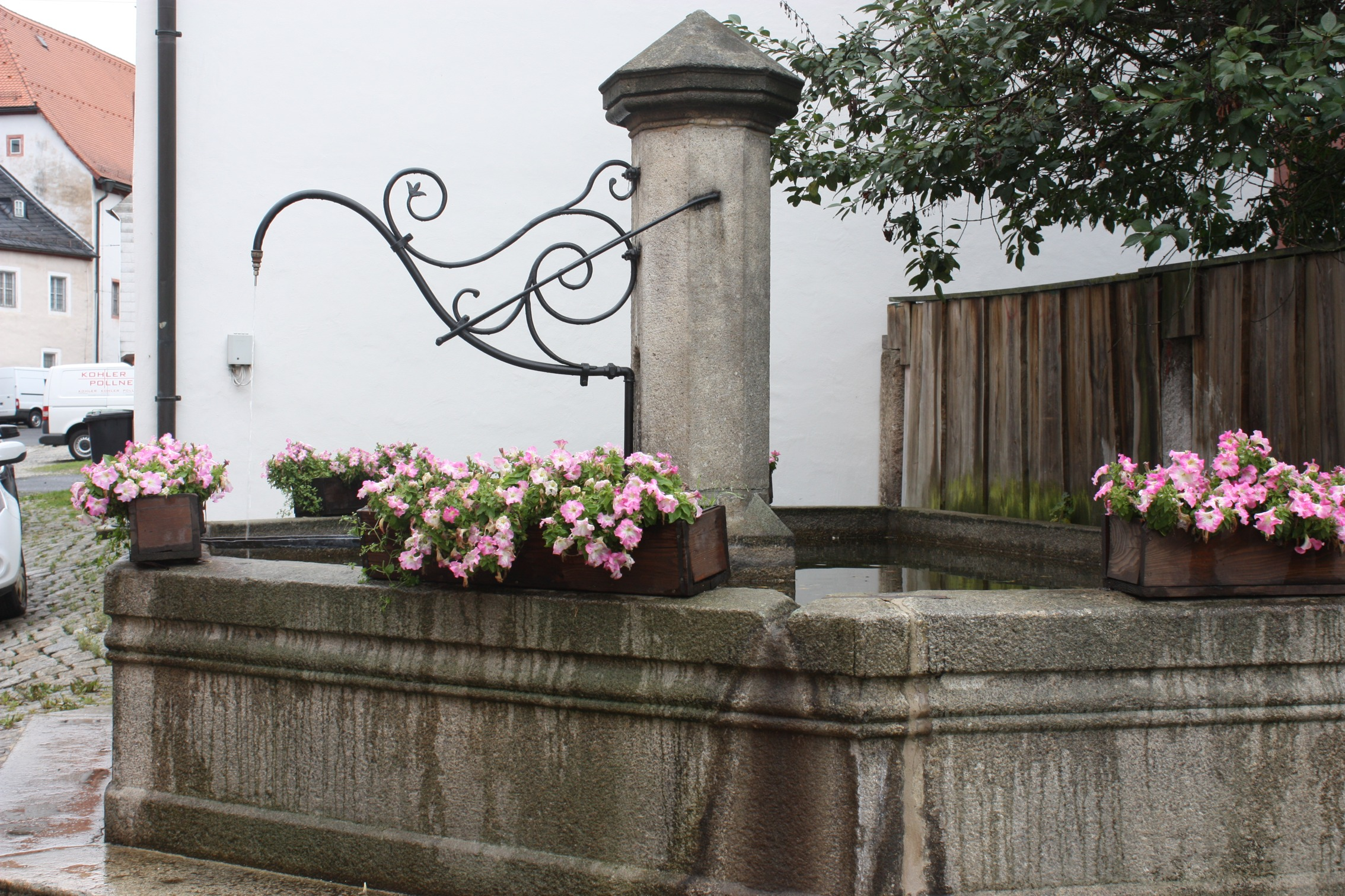 Wunsiedel, well on the Siegmund-Wann-Straße